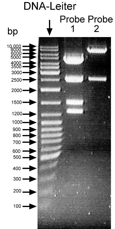 own picture and arrangements